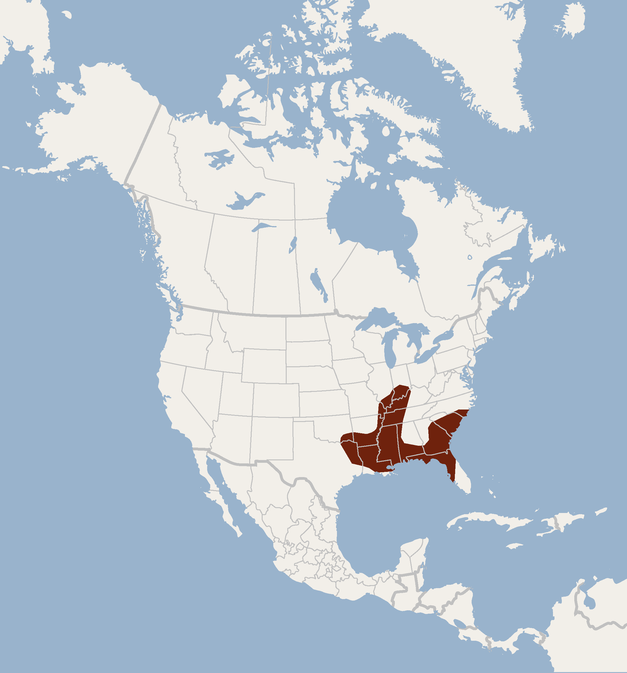 Geographical distribution of Myotis austroriparius according to Jones & Manning, 1989